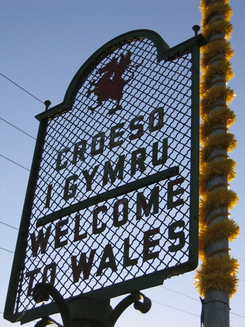 Croeso I Gymru/Welcome to Wales This nice old sign once resided very close to the border by the Anchor Hotel. Its removal by the council caused an outcry and it was eventually returned to an insignificant location in a layby some 100 metres from the border. It now has to fight for recognition with a street light (plus Christmas decorations), and advertising hoardings for a Saab dealership and a Shell petrol station. The odd angle of the shot is the only way to do some sort of justice to the sign without including all the other items.